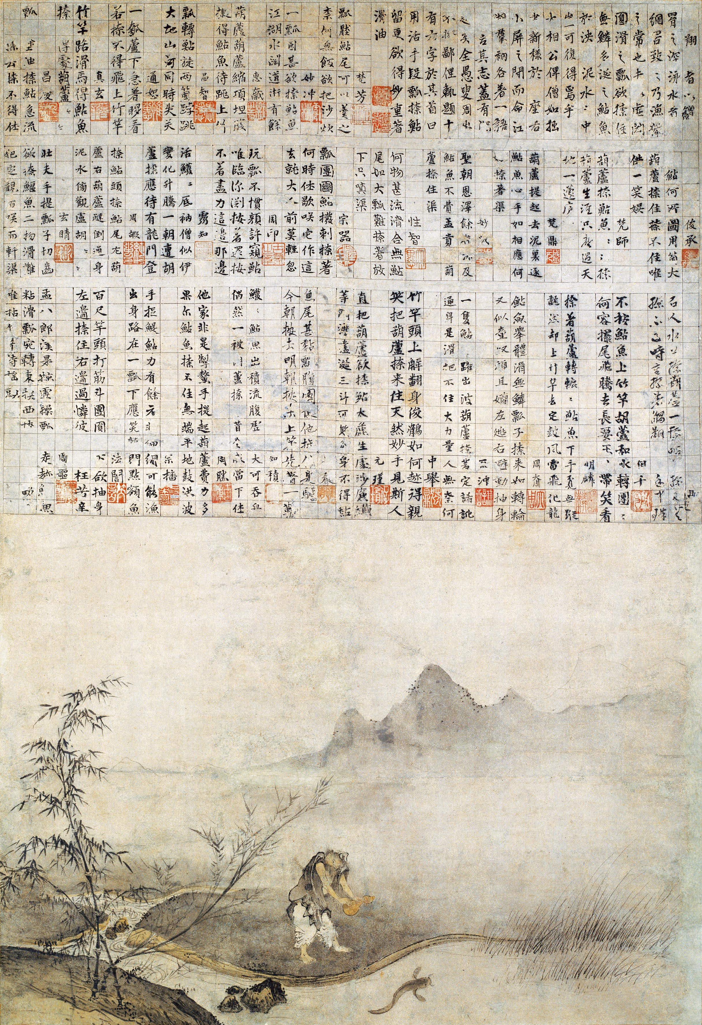 Hyonen zu by Josetsu, painter from the Muromachi period, ca 1415, ink on paper, 111.5cm height, 75.8cm wide, Taizo-in, Myoshin-ji, Kyoto, Japan